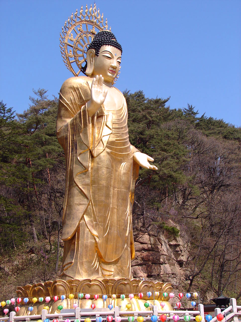 Golden Maitreya Statue of National Unification at Beopjusa is a 33-meter-high, 160-ton Buddha covered in 80kg of gold leaf erected in 1990 at a cost of $4 million. Beopjusa (법주사), initially constructed in 553, is a head temple of the Jogye Order of Korean Buddhism situated on the slopes of Songnisan in Naesongni-myeon, Boeun County, in the province of Chungcheongbuk-do, South Korea.